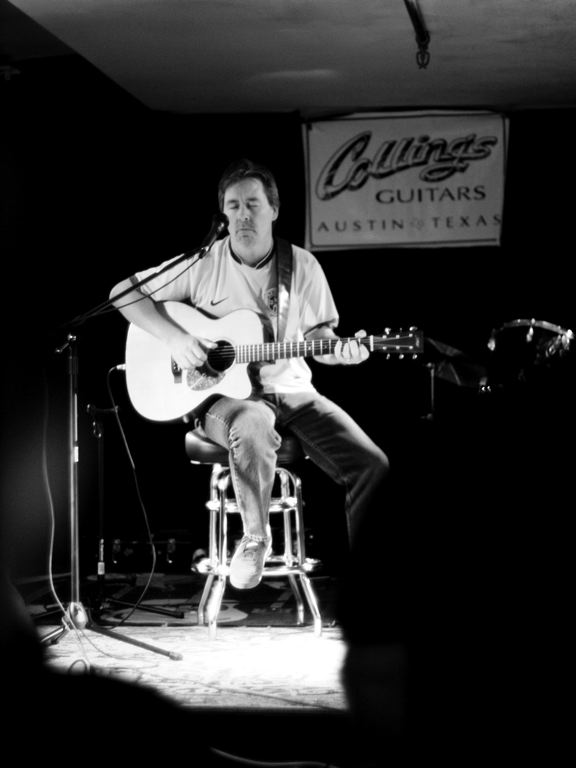 Pete Huttlinger performing in 2007